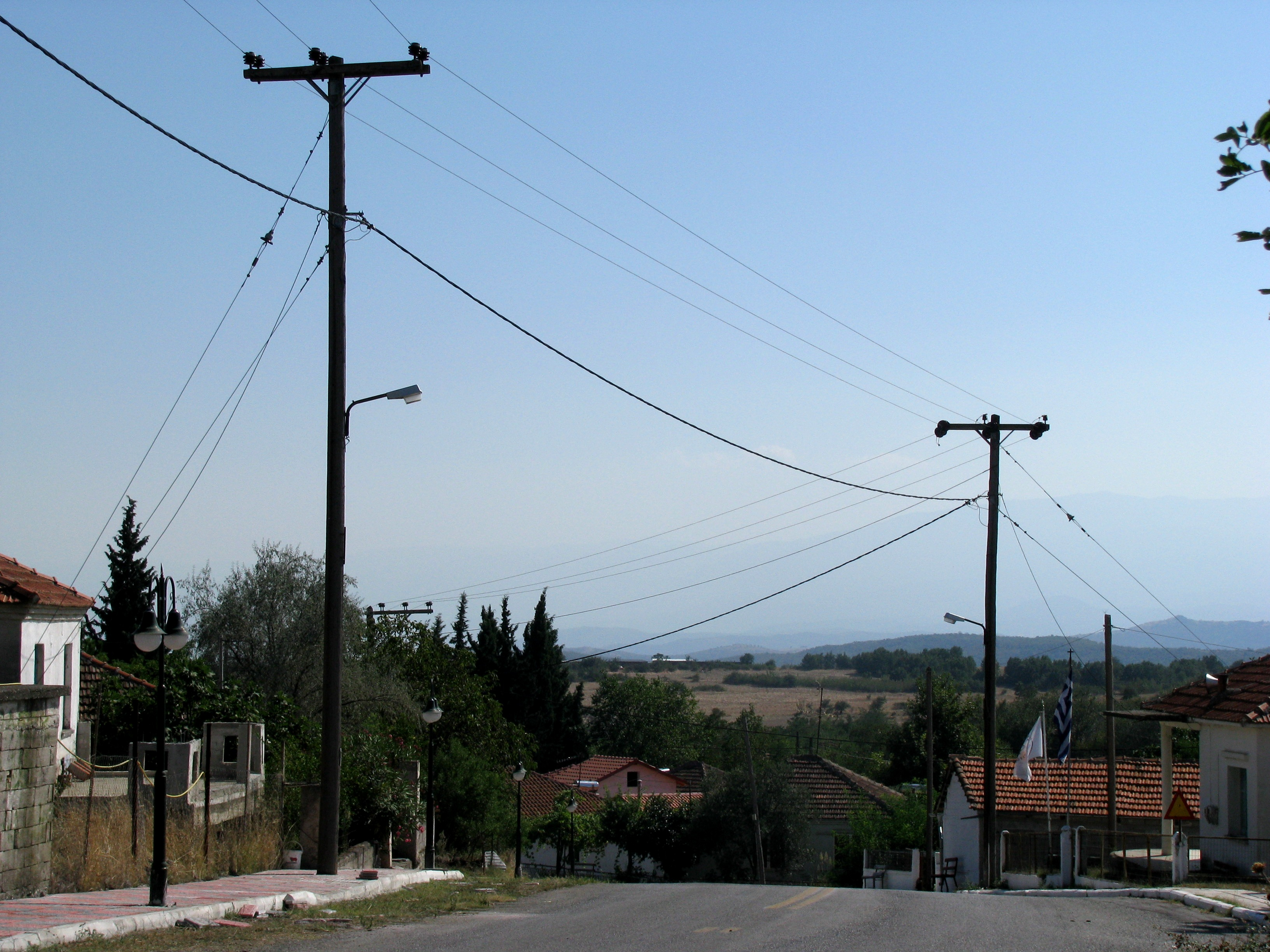 Village of Drenovo or Kranea, Pella prefecture, Greece